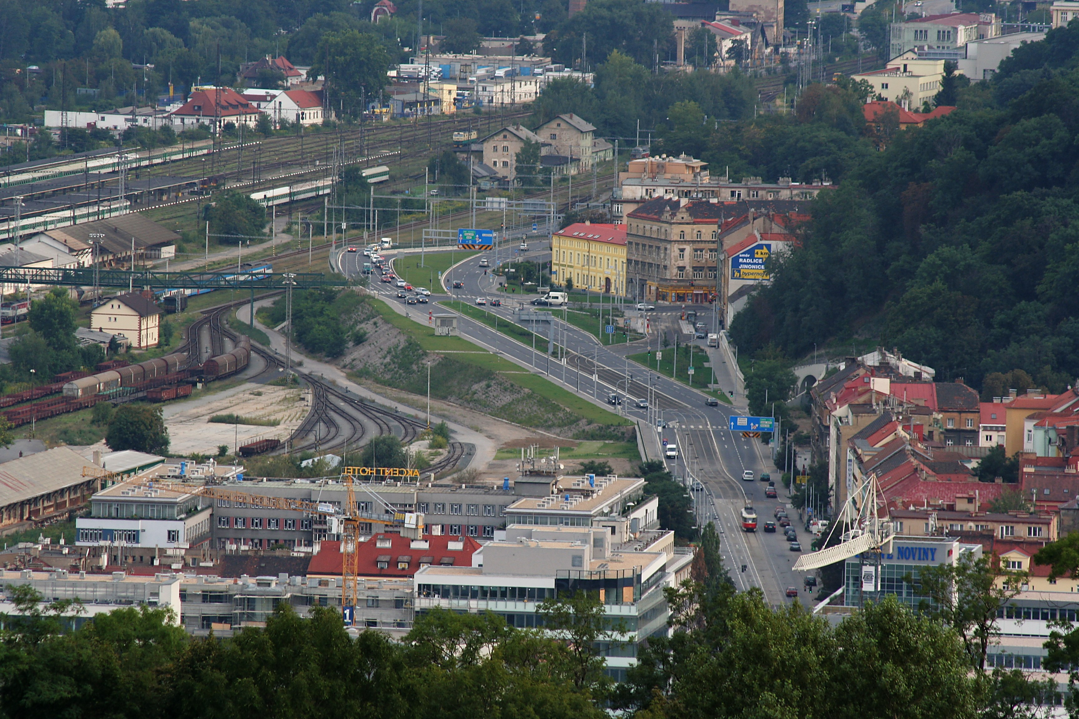 Roads and railway at Smíchov